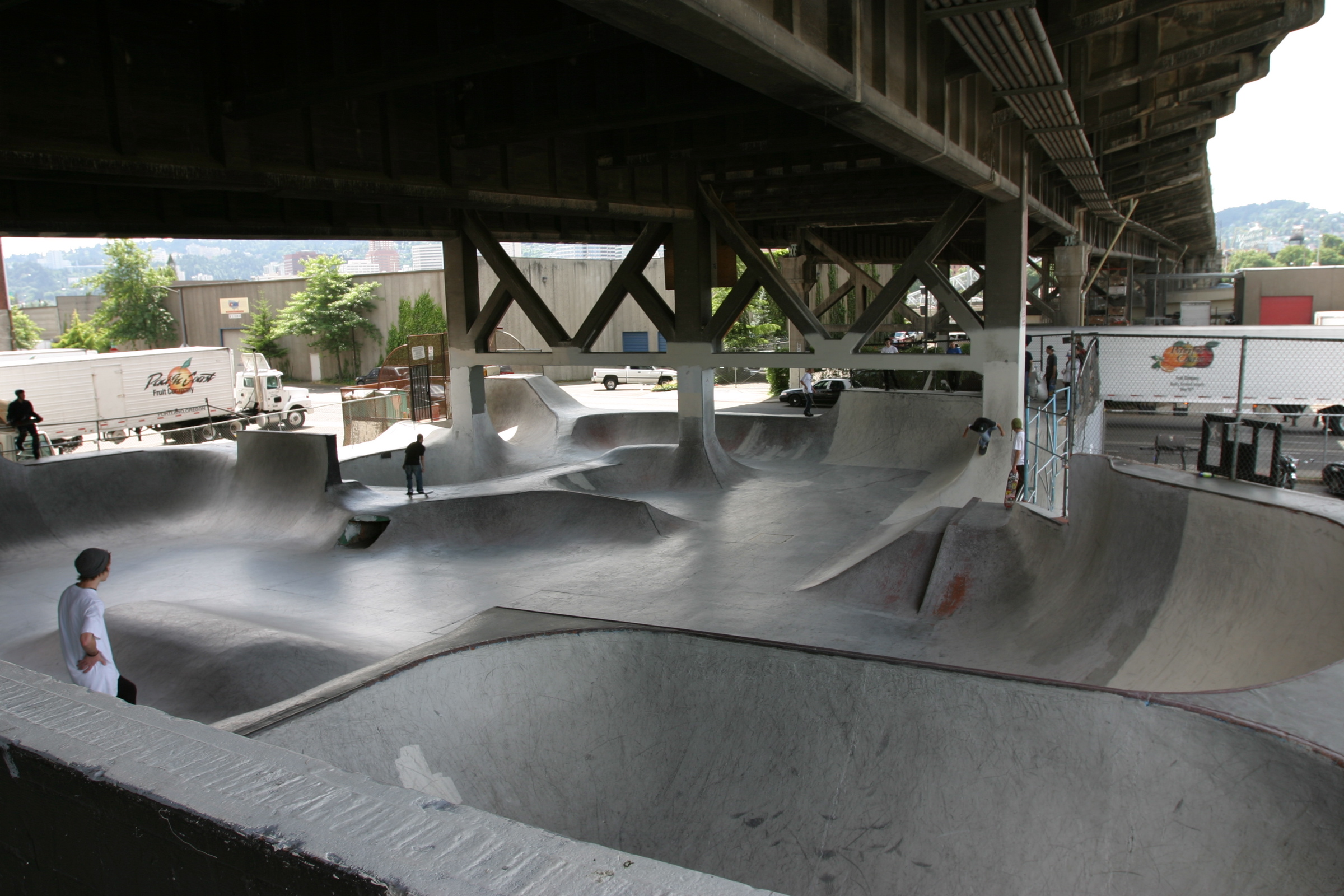 The Burnside Skate Park underneath the Burnside Bridge in Portland, Oregon.